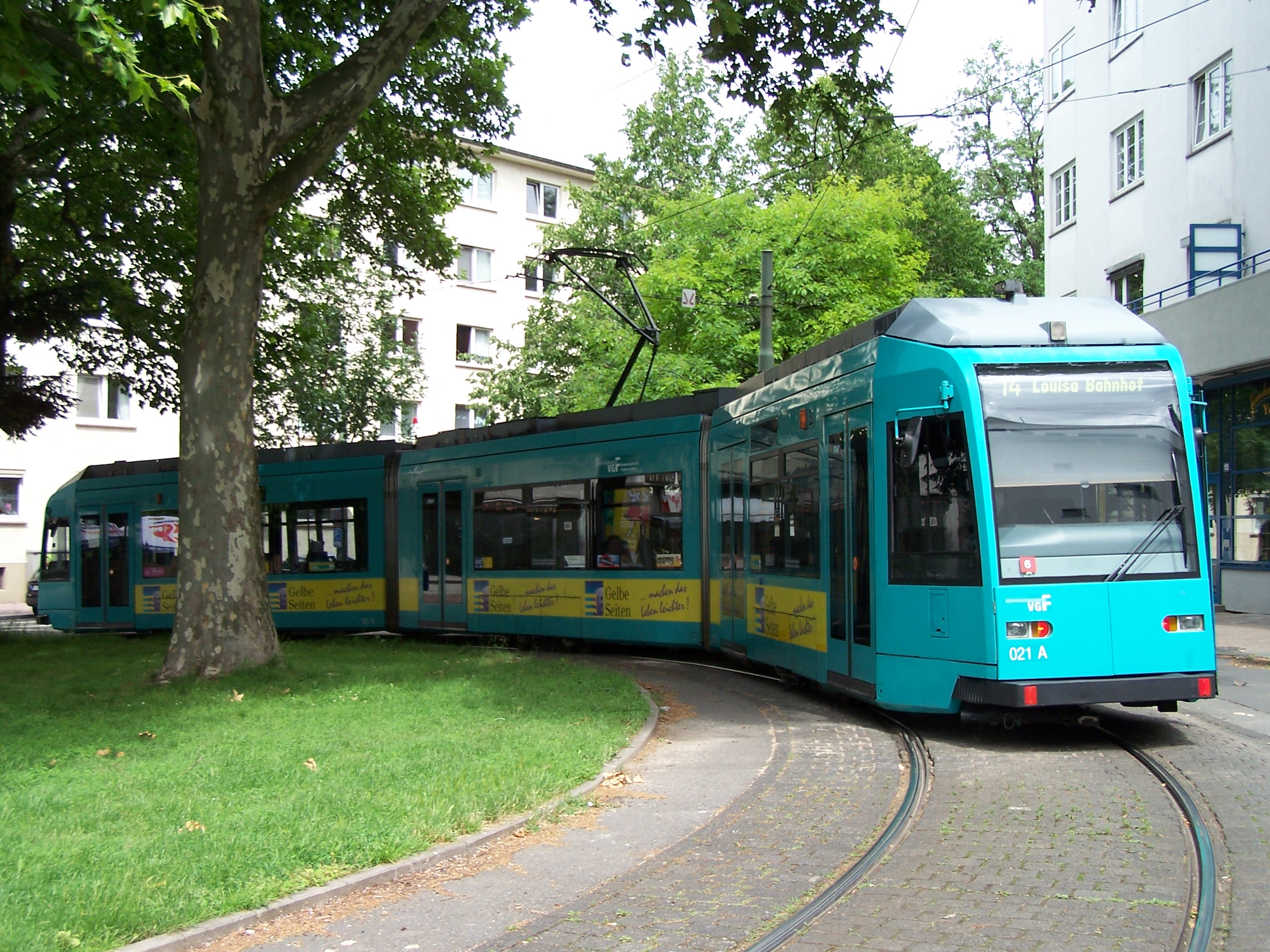 VGF type R railcar 021 at Ernst-May-Platz, Bornheim, Frankfurt am Main, Germany, June 24, 2007